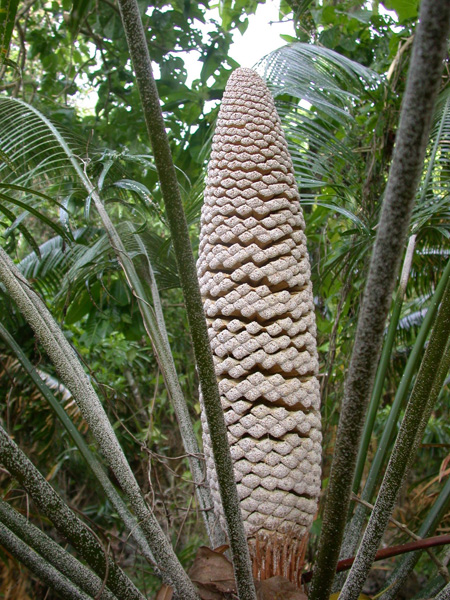 Infested male cone of c. microneisica